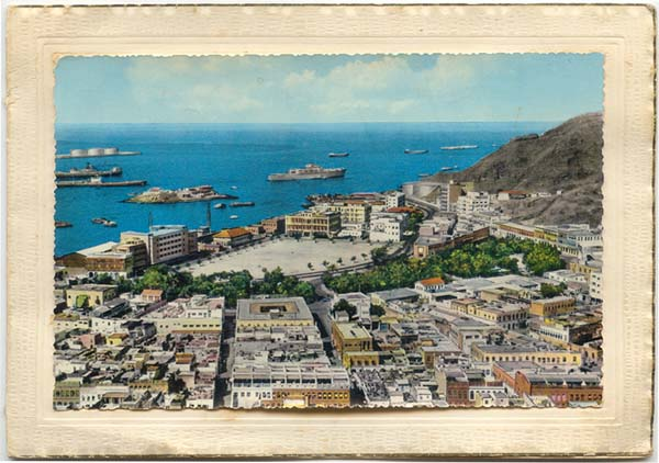 Old post card of Tawahi, Aden